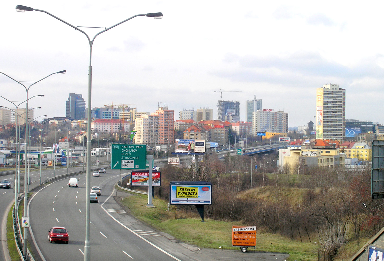 Notrh-south arterial road at Michle, Prague